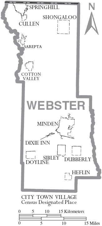 Map of Webster Parish, Louisiana, United States with municipal boundaries